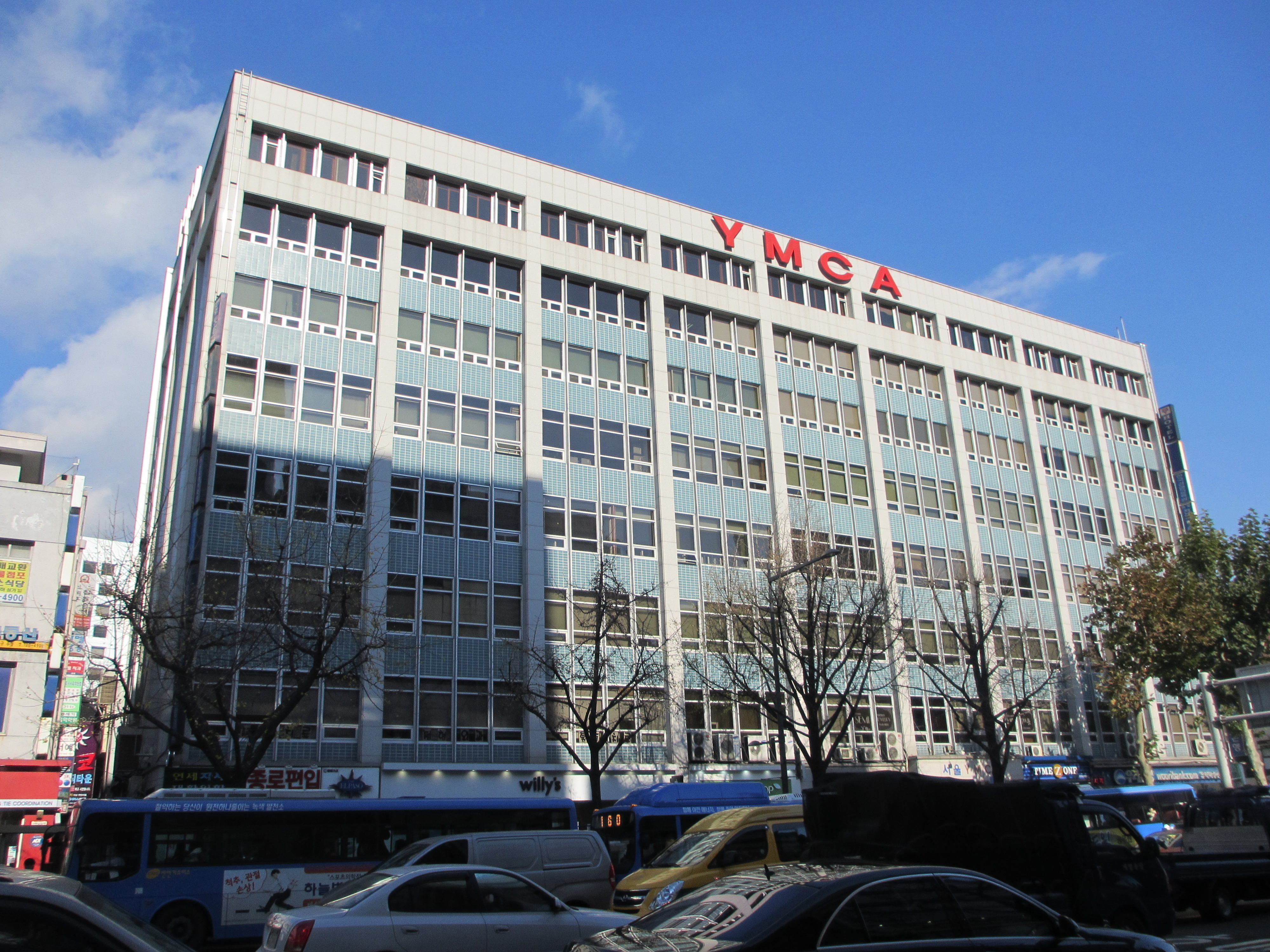 Seoul YMCA, Jongno 2-ga, Jongno-gu, Seoul, South Korea.